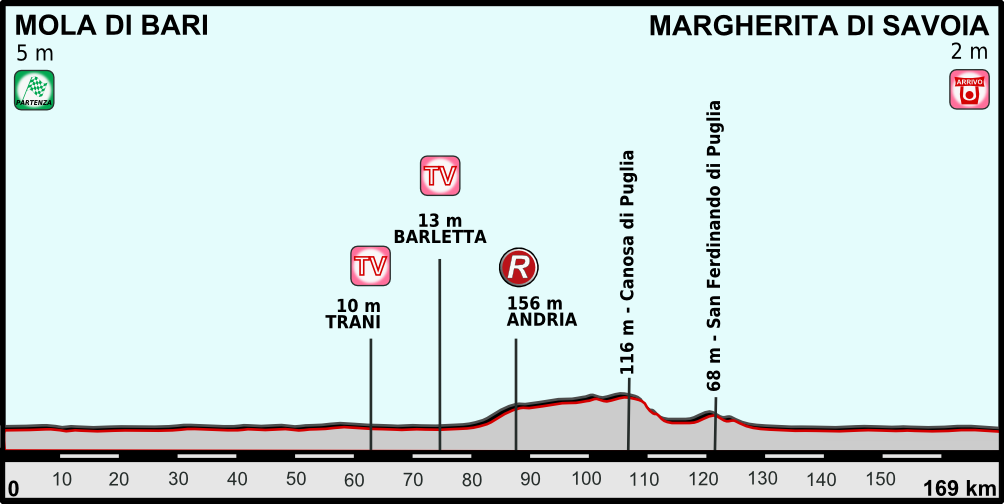 Giro d'Italia 2013 - stage profile # 06